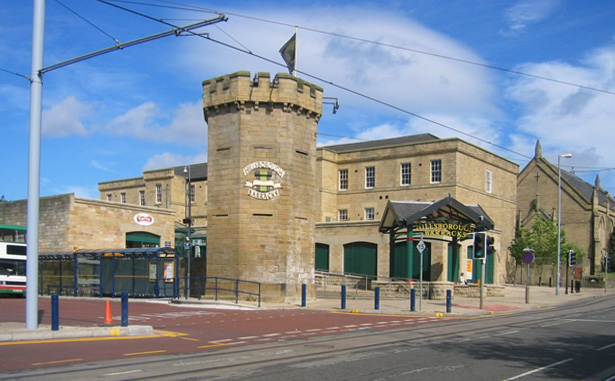 Hillsborough Barracks. Part of Hillsborough Barracks, originally built in 1848. In the recent past it has been transformed into a hotel and conference centre, and a Morrisons supermarket.